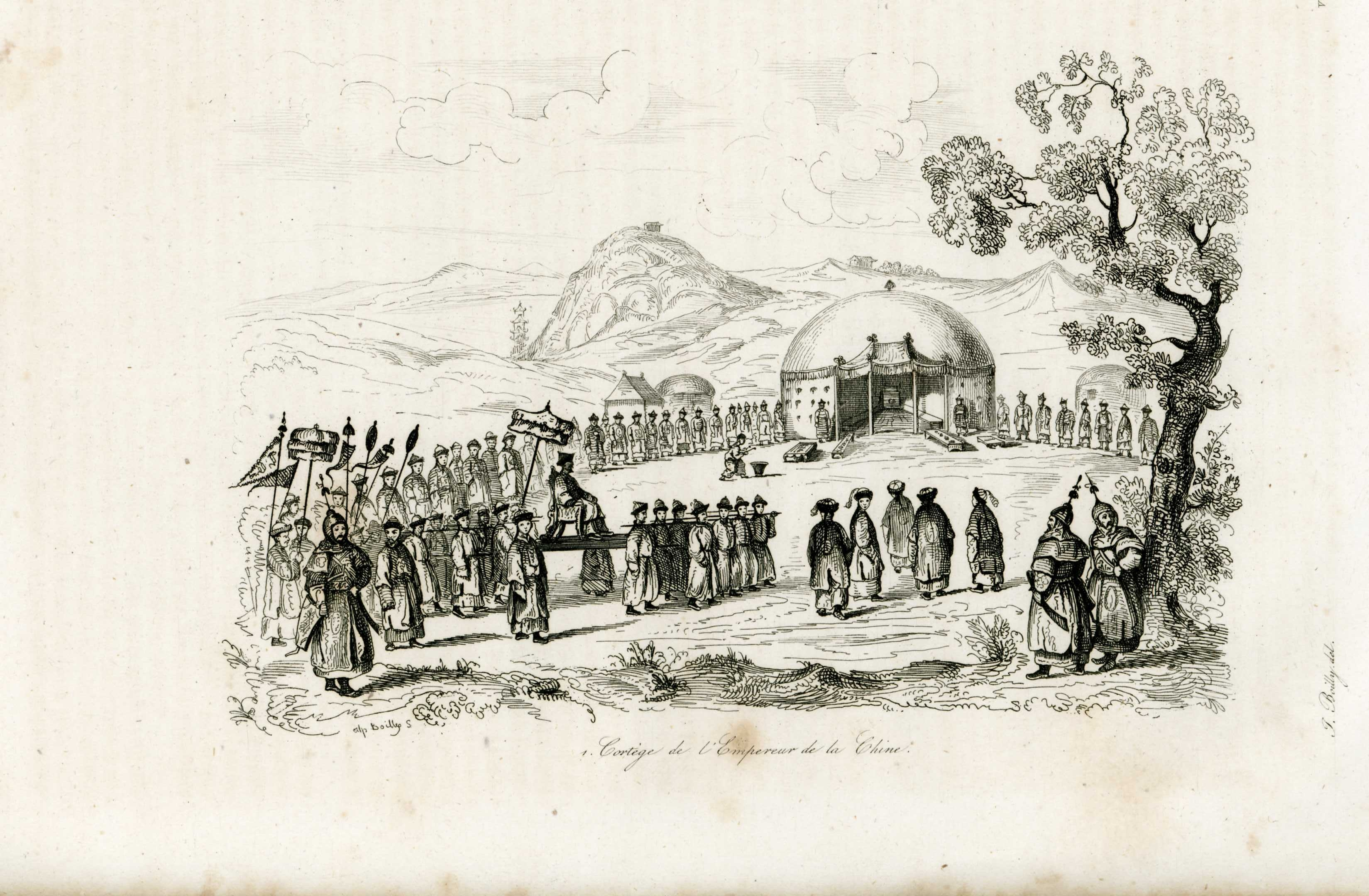 Cortege of the emperor of china, Boilly visited China in the 19th Century under the Qing dynasty